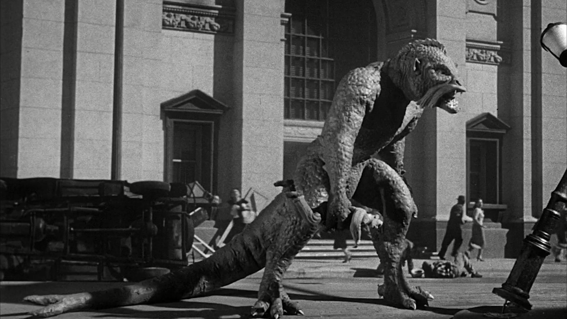 Scene from 20 Million Miles to Earth.